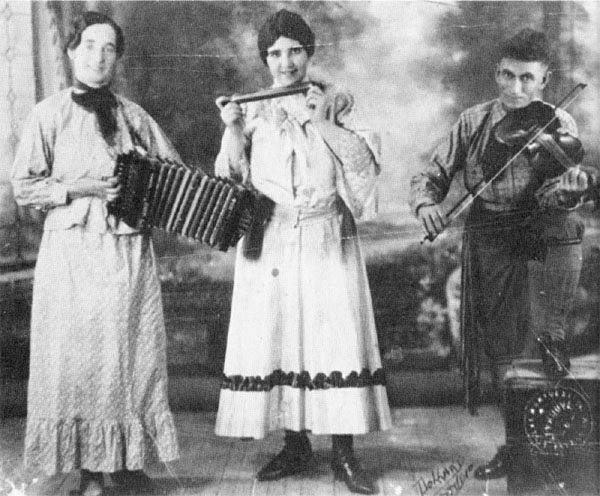 Mary Bolduc and colleagues, 1928, with traditional folk instruments